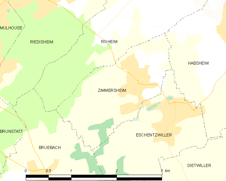 Map of French municipality